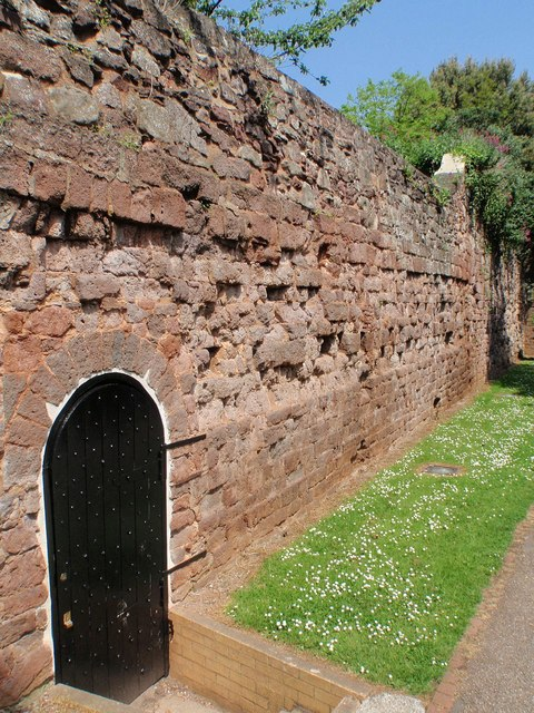 Door through the city walls A secret garden quality to this black door tucked away in the city walls. It leads into gardens behind the Bishop's Palace.